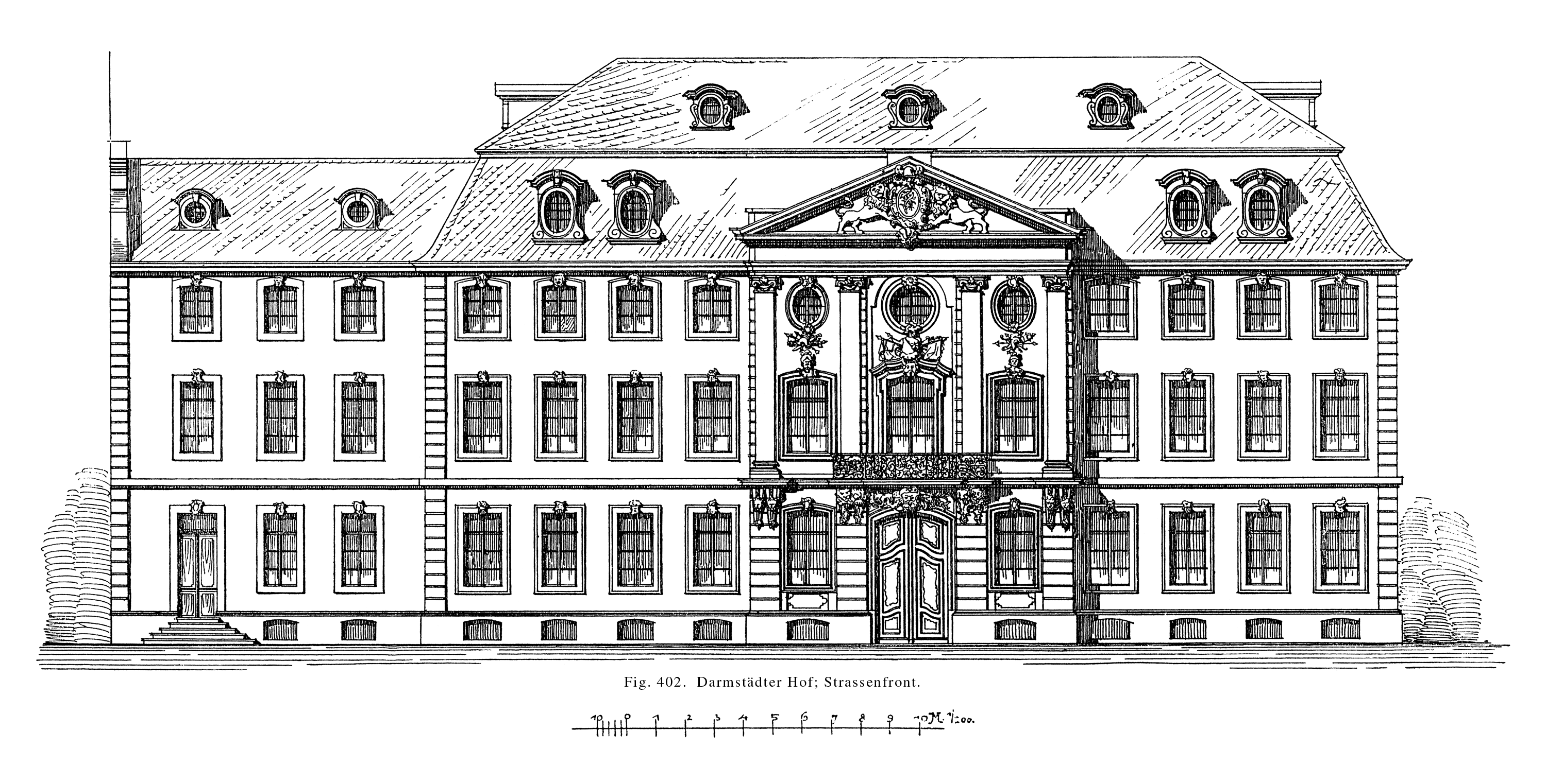 Frankfurt on the Main: Darmstaedter Hof (Court of Darmstadt), elevation of the facade to the Zeil